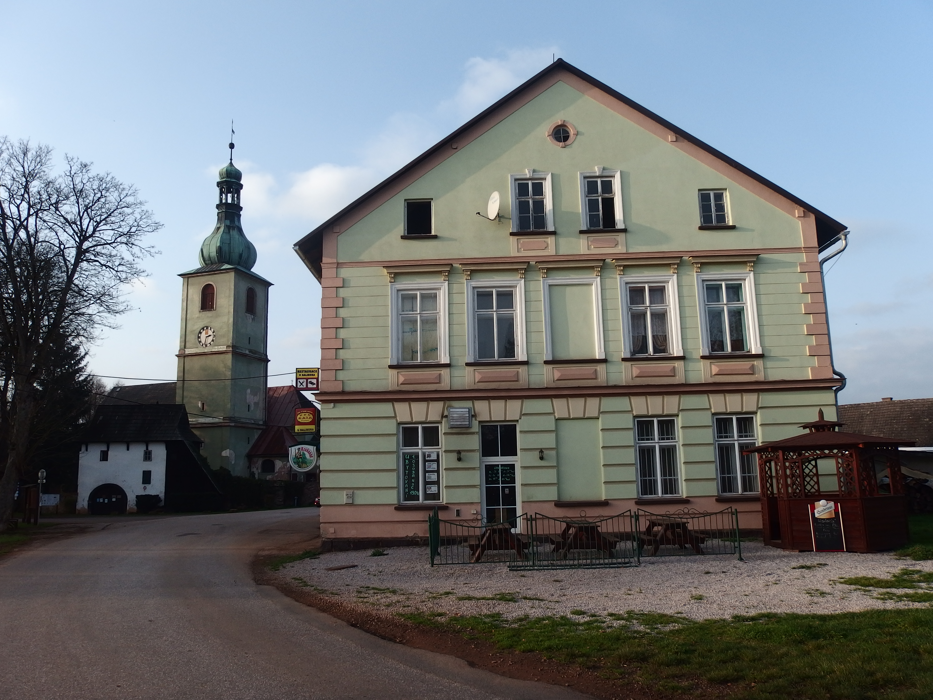 Vlčice, Trutnov District, Czech Republic. Church of Saint Adalbert and cemetery.